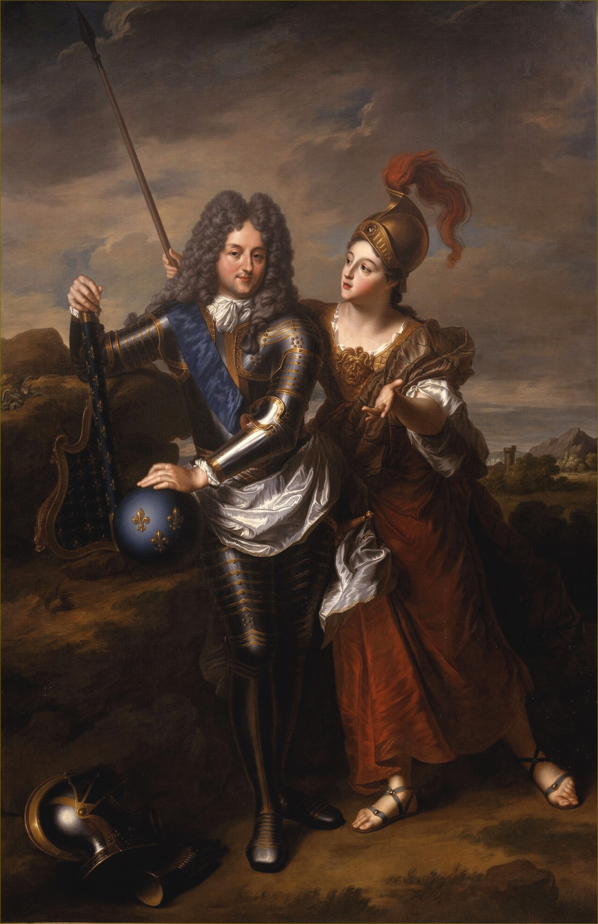 Philippe d'Orléans as Regent of France; he stands with his mistress Madame de Parabère who poses as Minerva, goddess of Wisdom